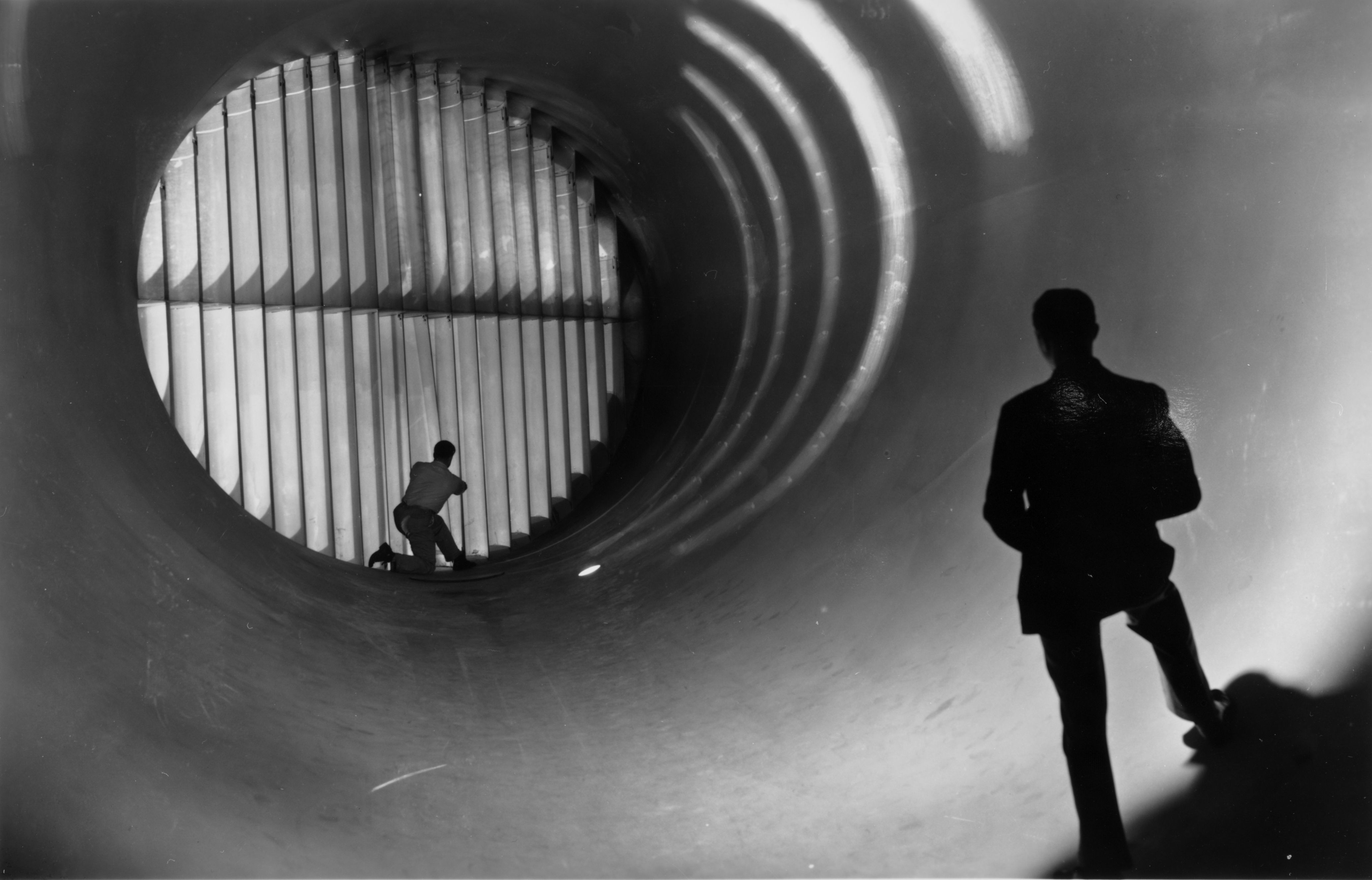 Eight Foot Wind Tunnel (NASA Langley) (cropped) showing turning vanes inside tunnel